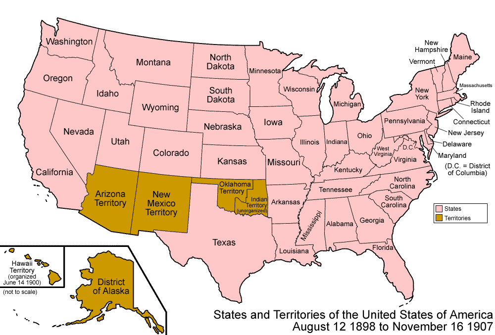 Map of the states and territories of the United States as it was from 1898 to 1907. On August 12 1898, the United States annexed the Republic of Hawaii. It would be organized as Hawaii Territory on June 14 1900. On November 16 1907, Oklahoma Territory and Indian territory were admitted as the state of Oklahoma.